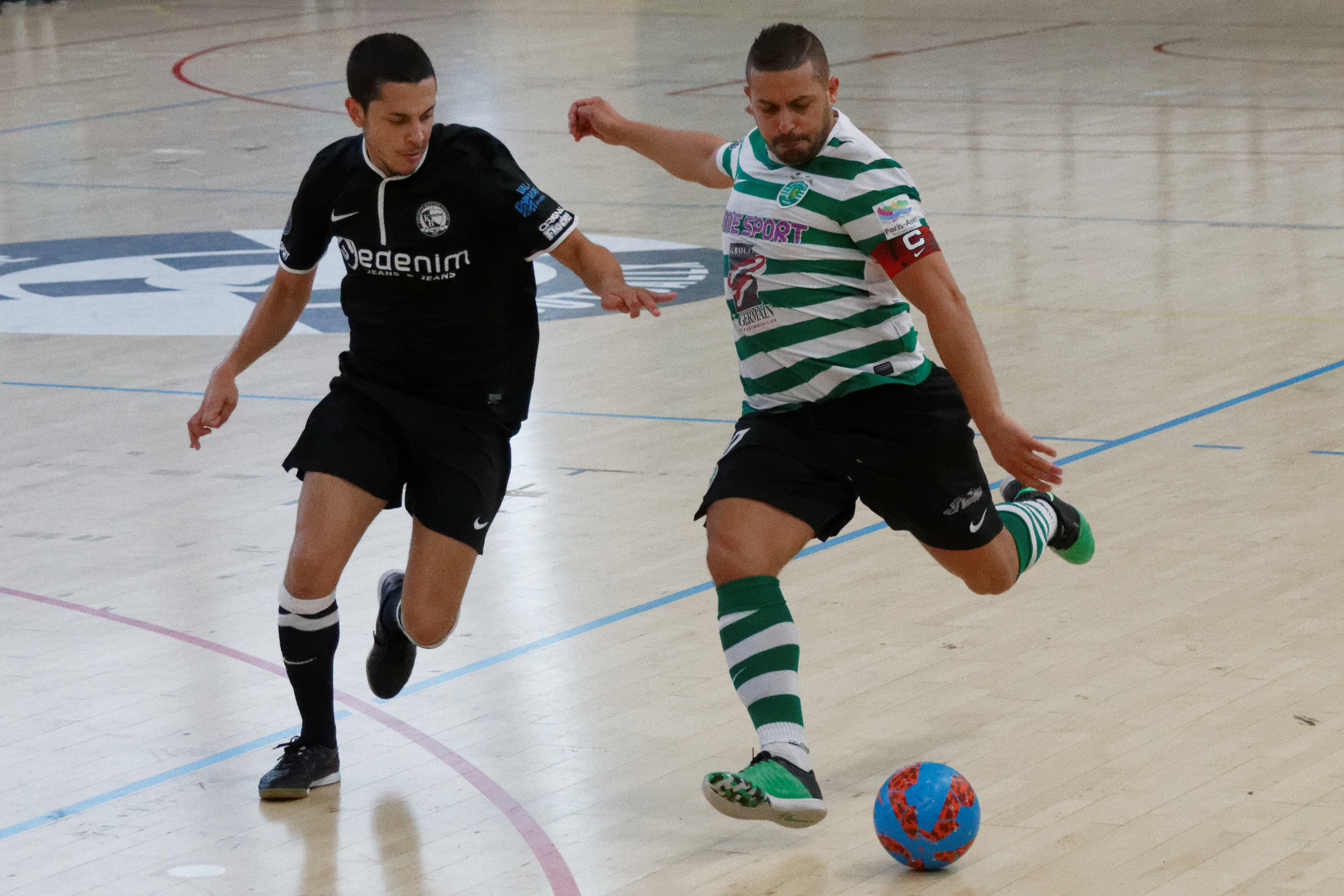 France futsal championship. Play-off. Sporting Club de Paris vs Kremlin-Bicêtre United.